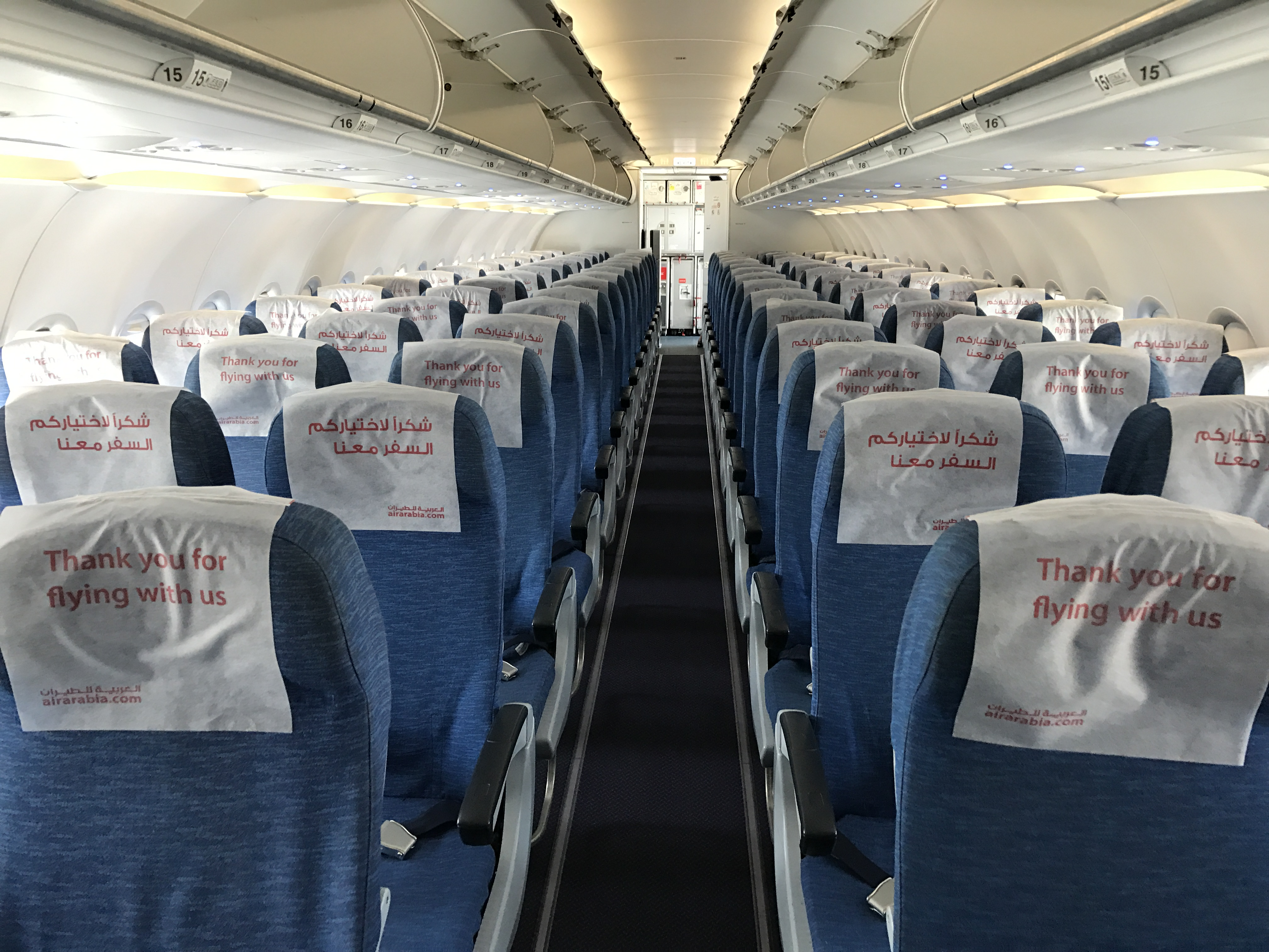 Air Arabia A320 Interior with bleu seats